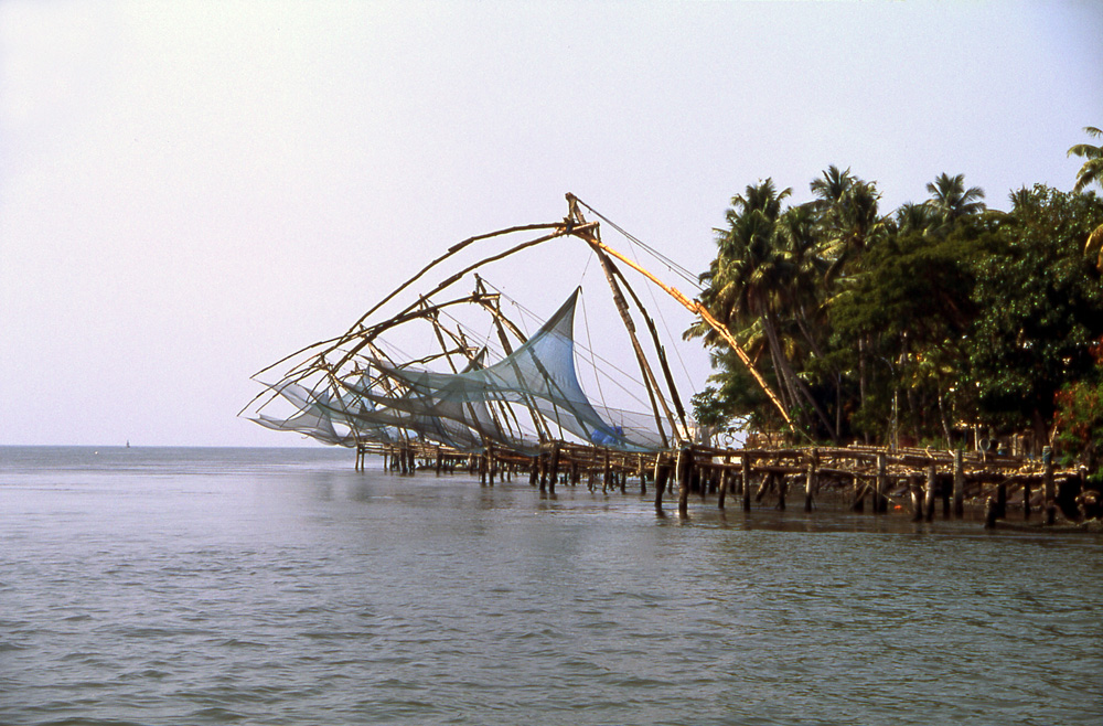 The so called Chinese fishing nets in Kerala, India Photograph by Henryk Kotowski